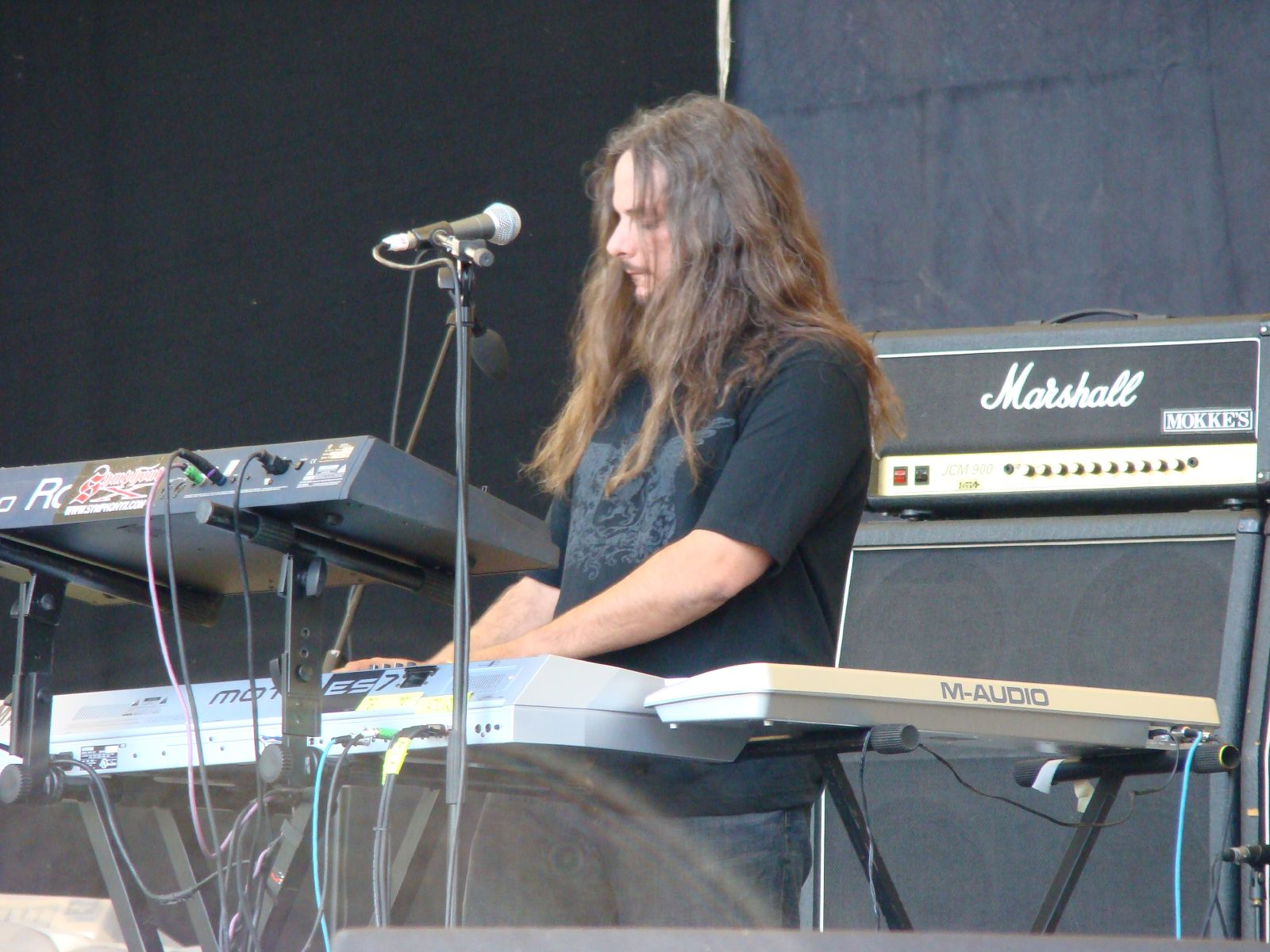 Michael Pinella of Symphony X